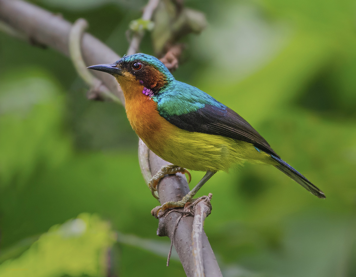 Guwahat, Assam